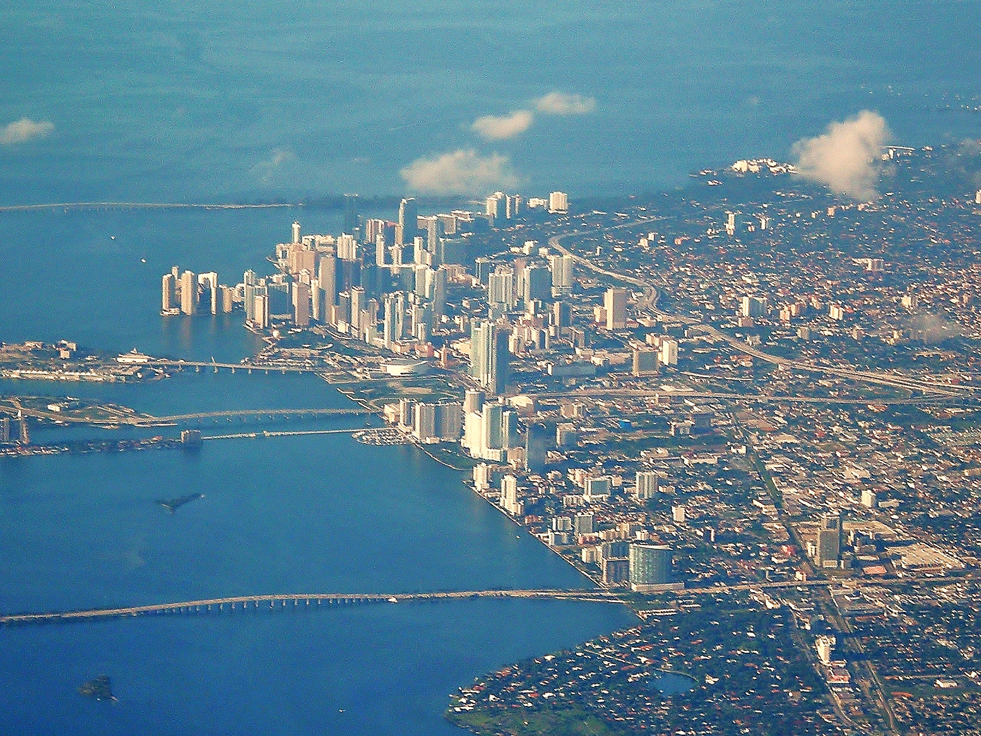 Digital photo taken by Marc Averette. Downtown aerial view of Miami, Florida June 2008.